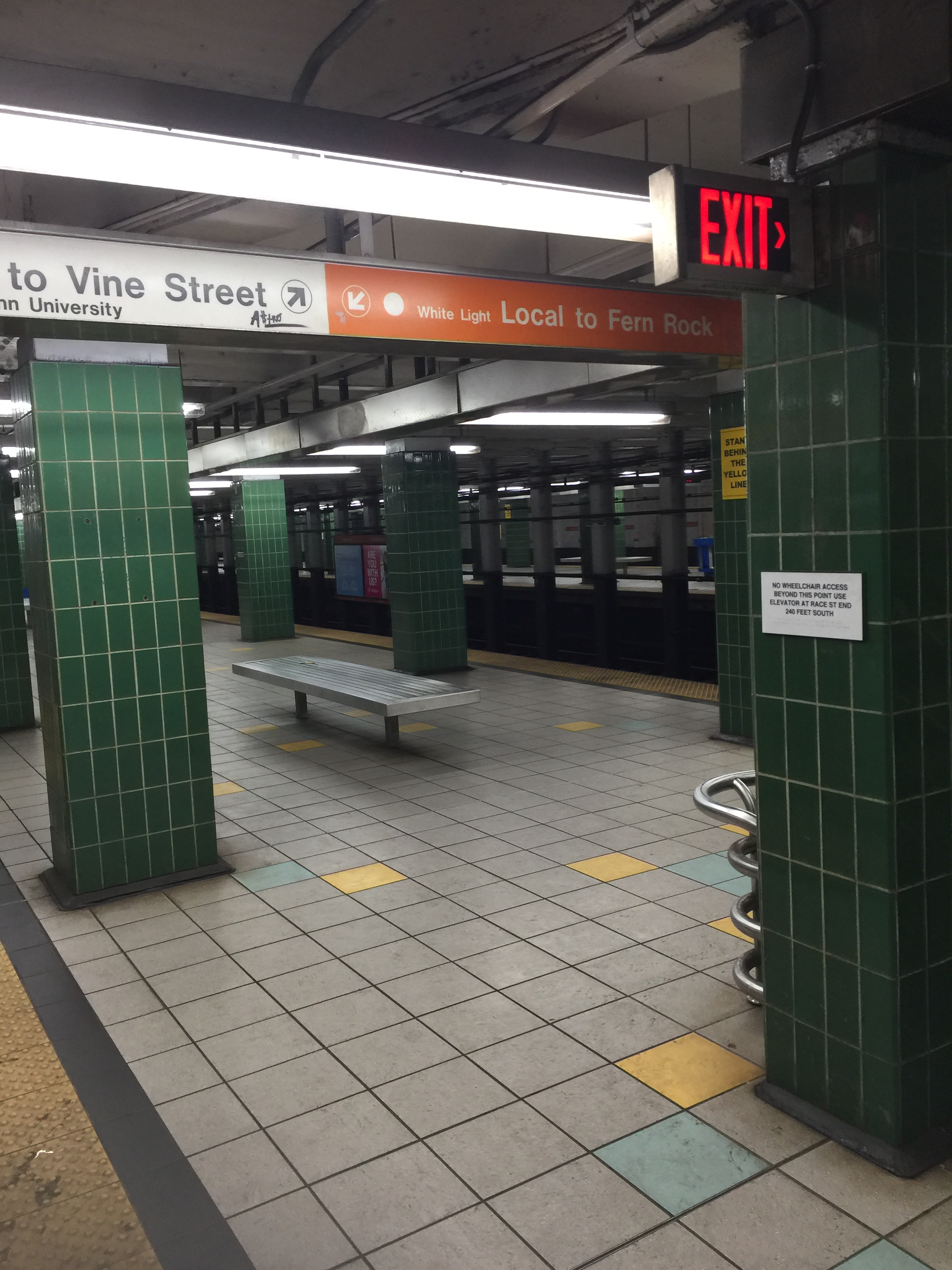 Race-Vine station on the Broad Street Line.